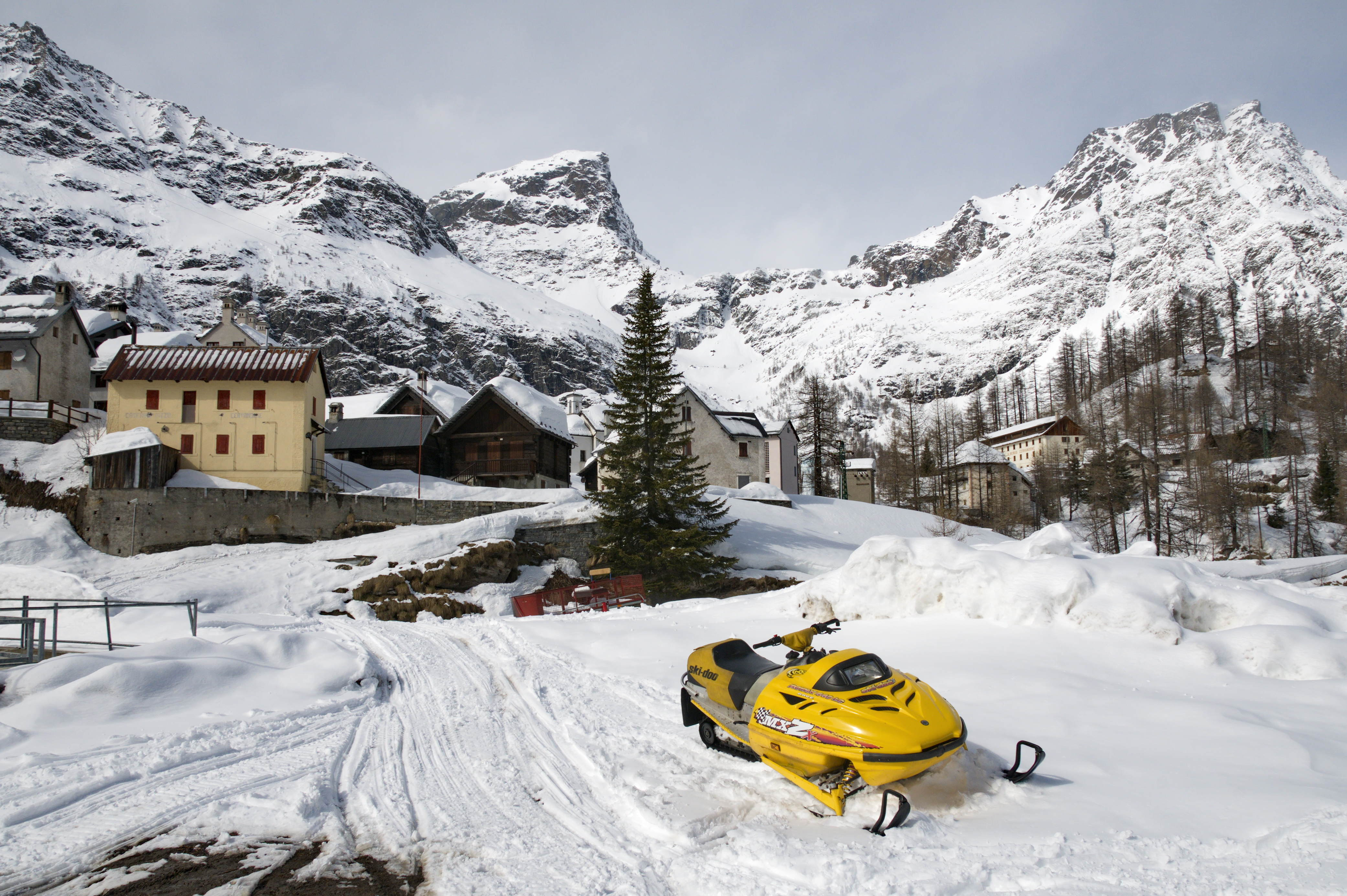 Natural Park of Alpe Devero. The two peaks from the left are: Punta della Rossa/Rothorn and Pizzo Crampiolo. Alpe Devero is located in the municipality of Baceno (VB), in Piedmont, Italy. 2009-03-26